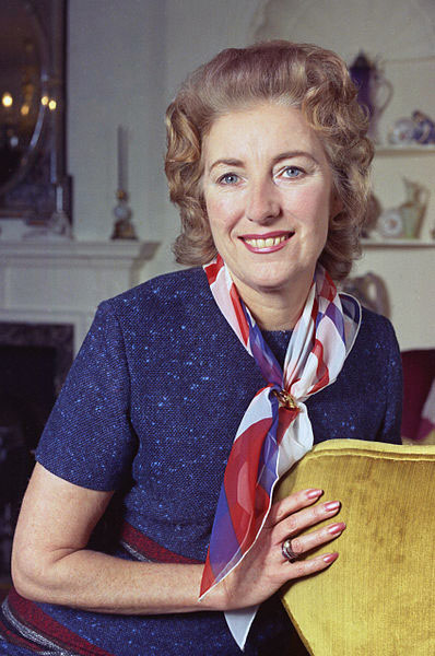 Dame Vera Lynn at home in Sussex England